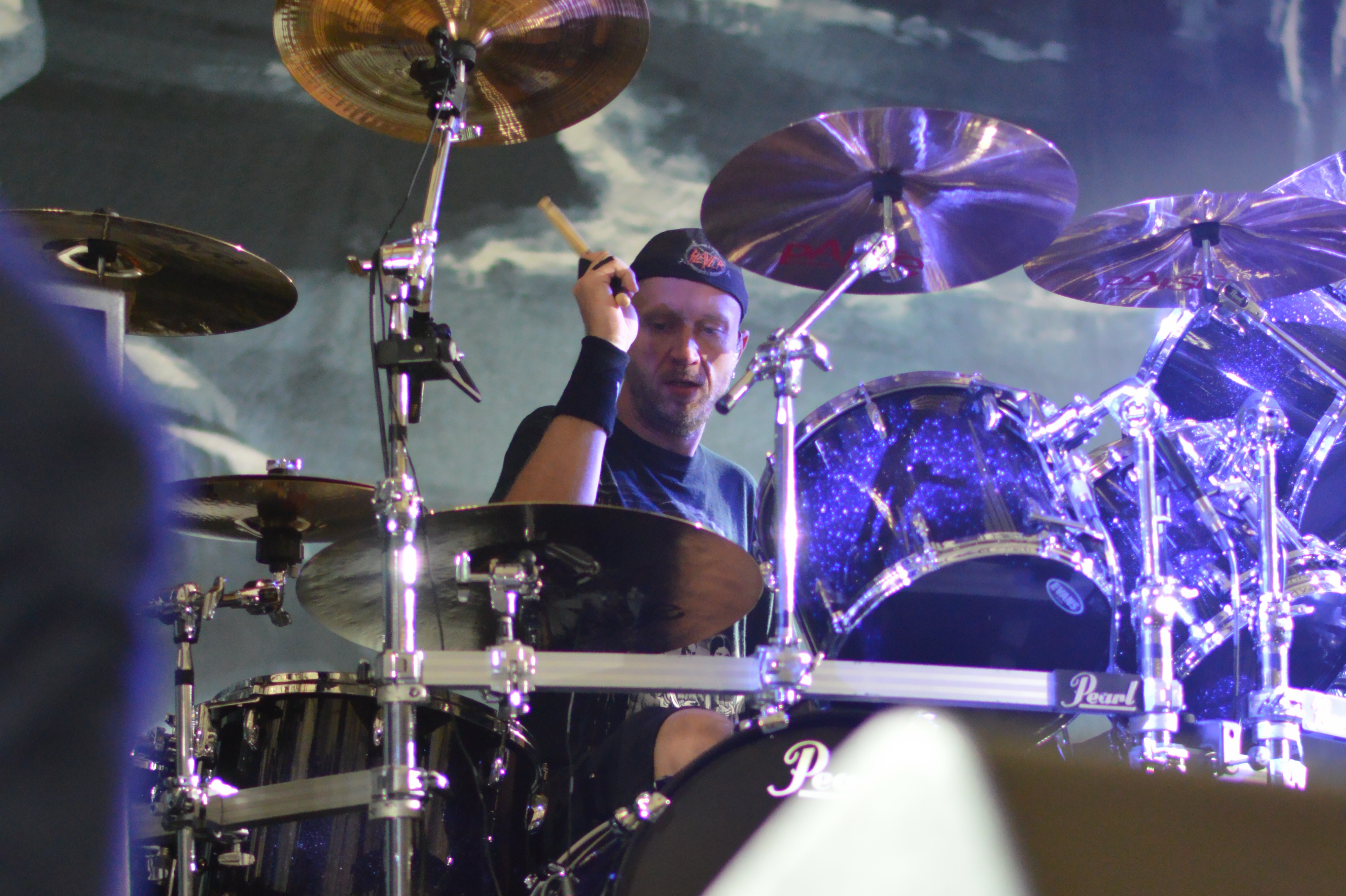 Jon Larsen at the drums at a Volbeat concert i 2013.